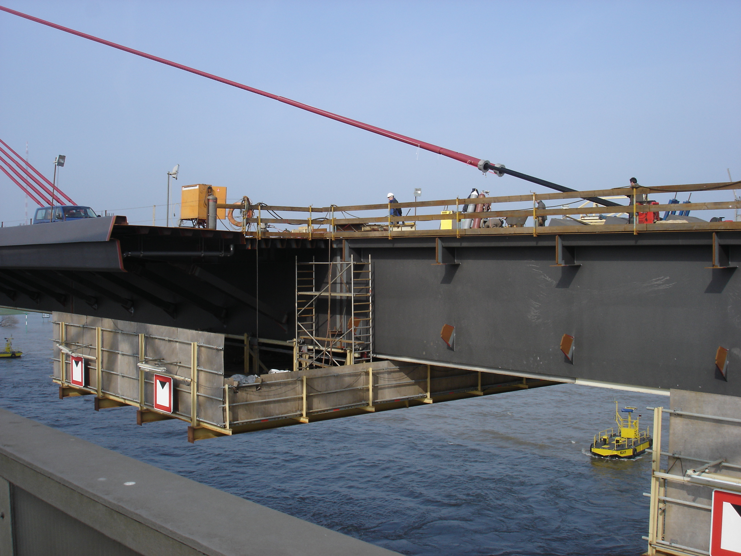 Construction of the new suspension bridge over the rhine in Wesel